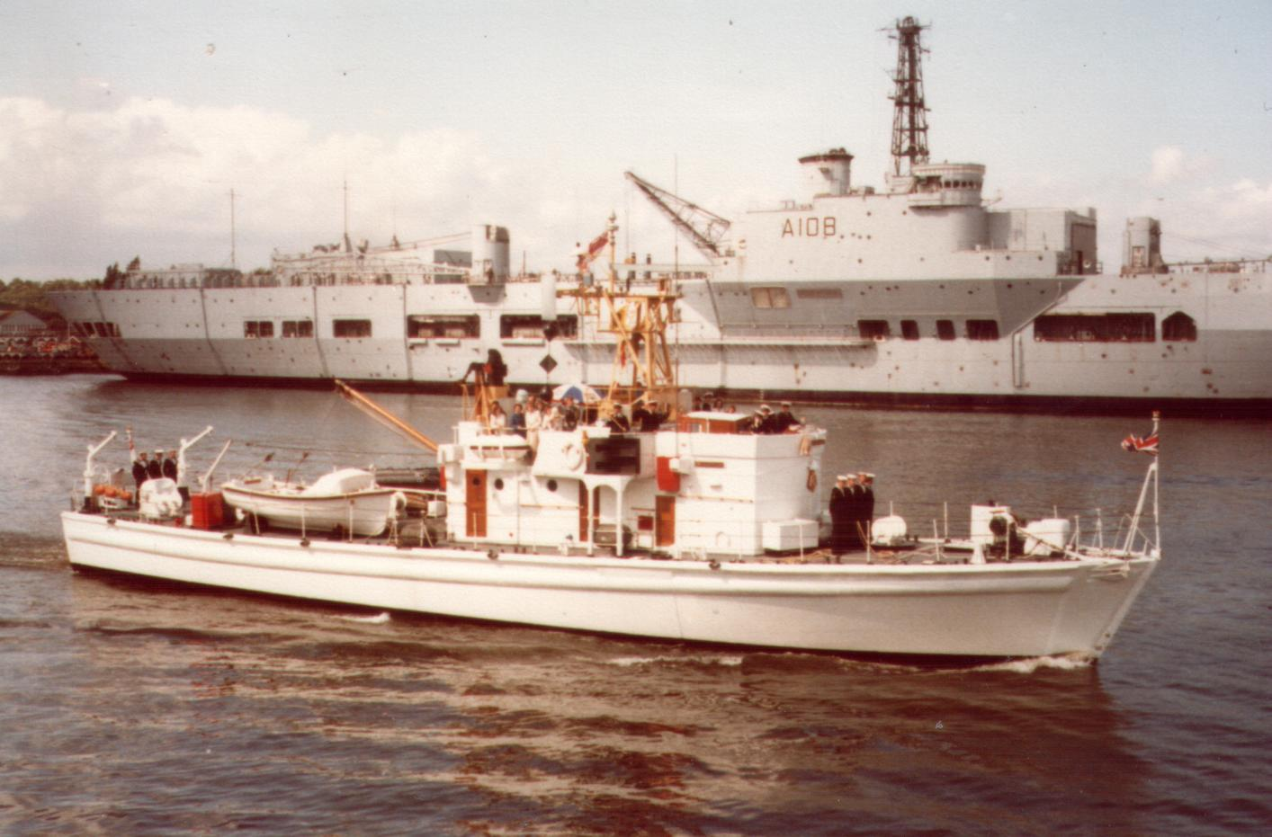 HMS Enterprise at Chatham in 1981 (HMS Triumph behind)